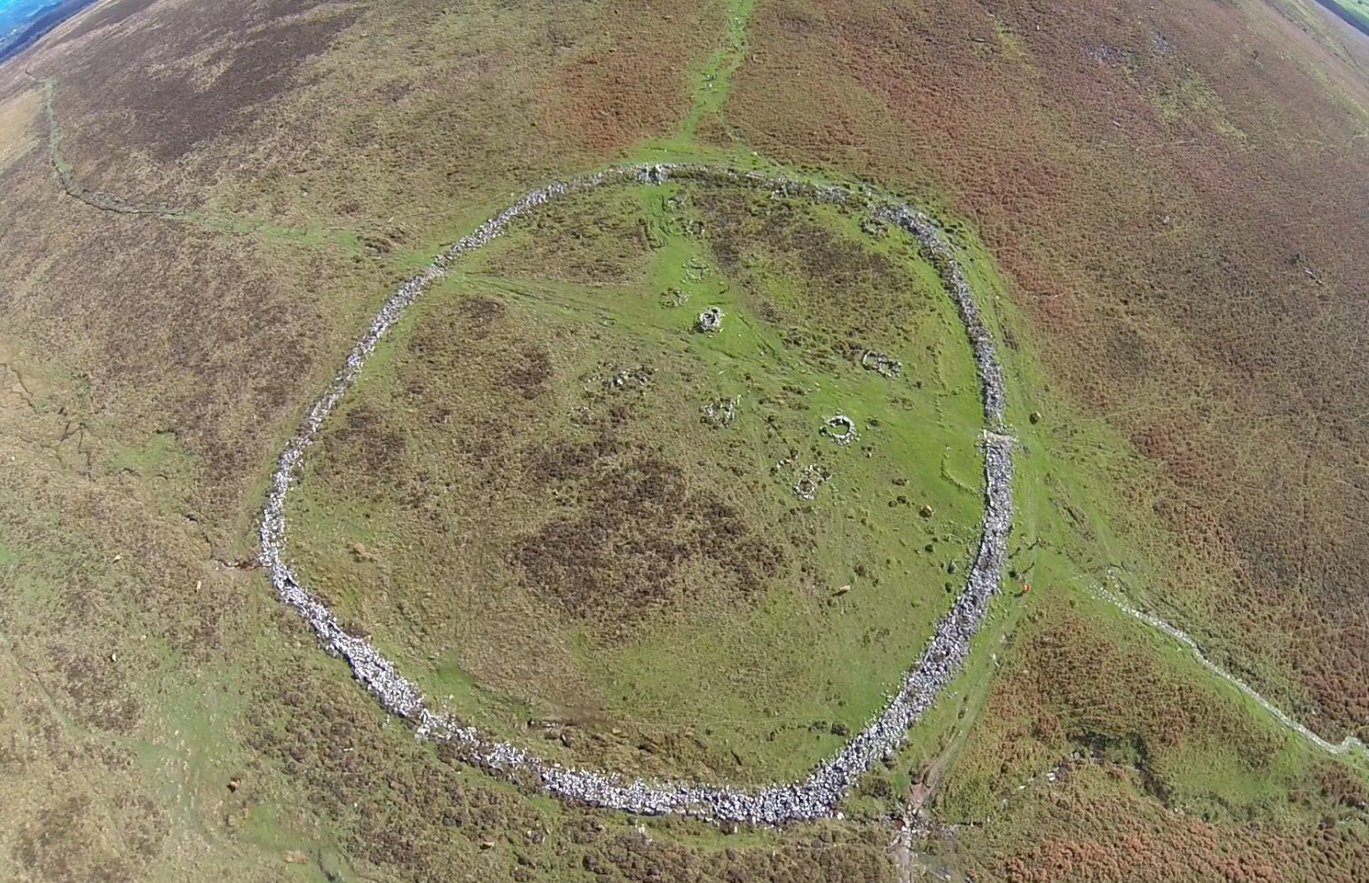 A still taken from UAV video